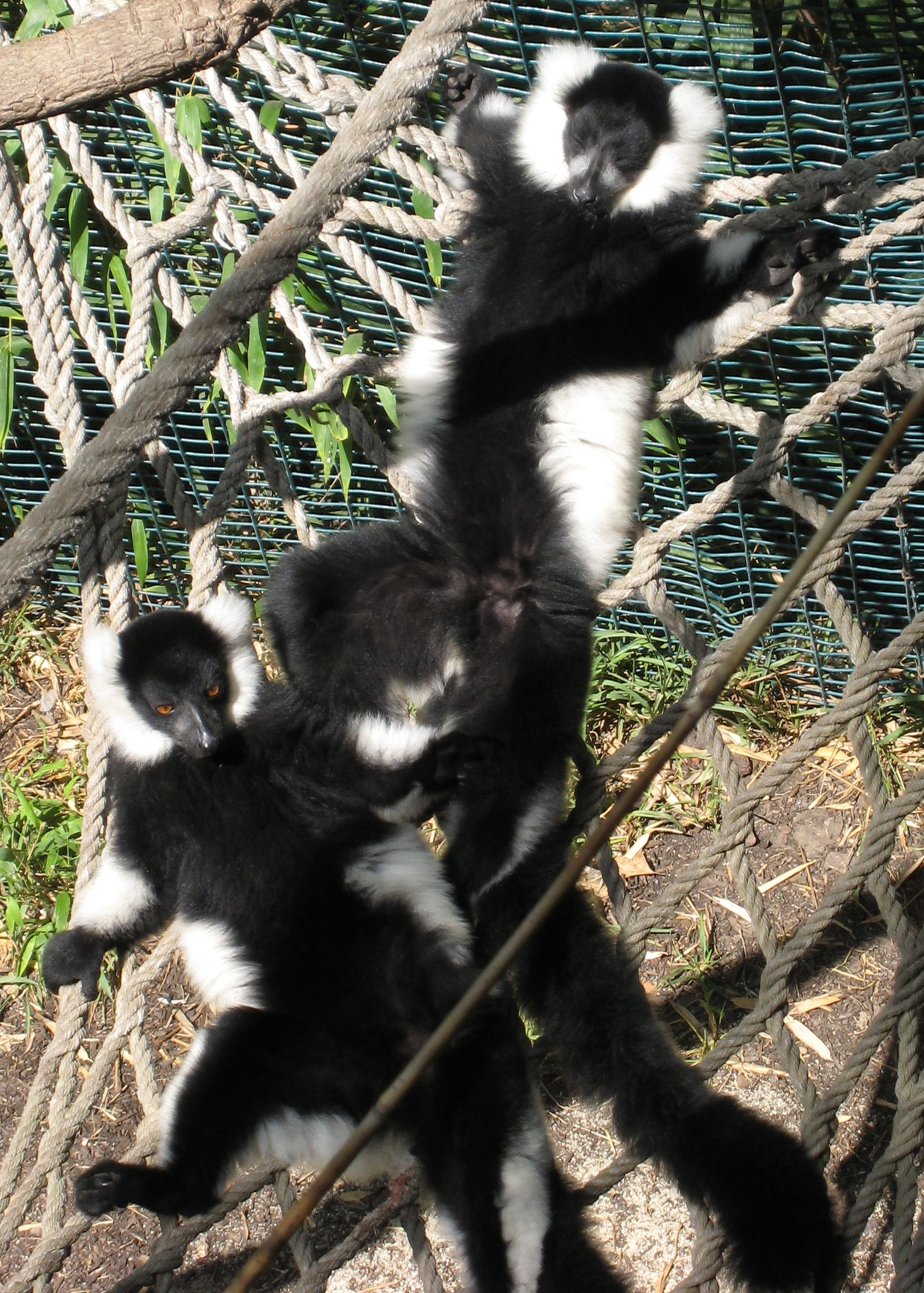 Two Black-and-white Ruffed Lemurs (Varecia variegata) lying in a sunning position in a hammock; taken at the Santa Barbara Zoo